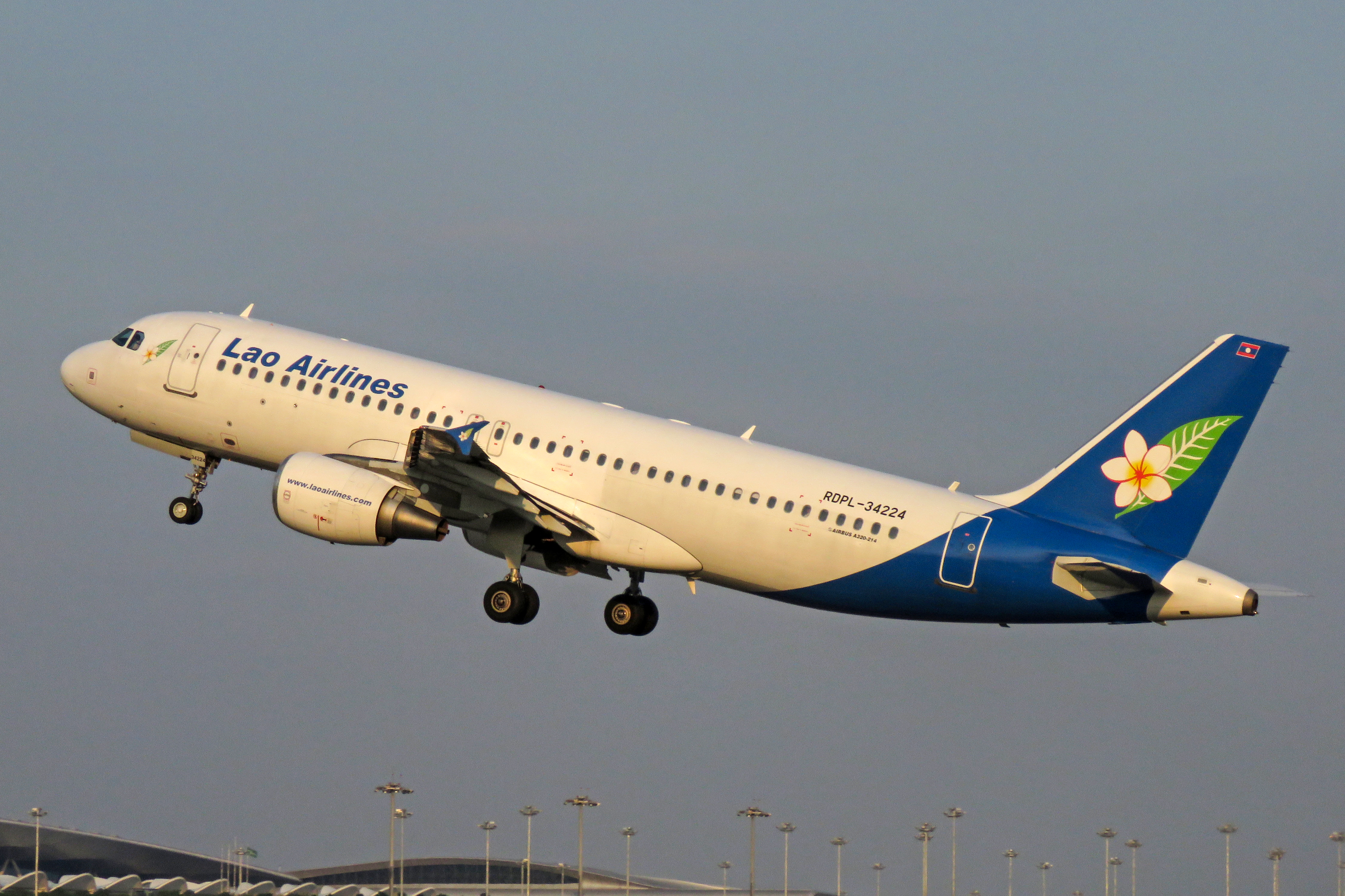 Lao 882 to Vientiane. "RDPL" stands for "République démocratique populaire du Laos", the full name of Laos in French.